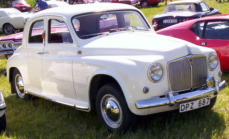 Rover 75 4-Door Saloon 1952